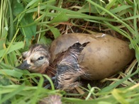 hatching godwit